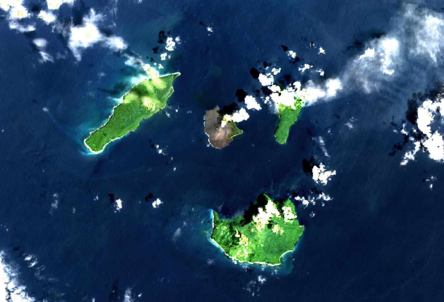 Landsat 8 surface reflectance image of Anak Krakatoa on 2018-12-20, two days before its eruption. Image has been processed in QGIS.